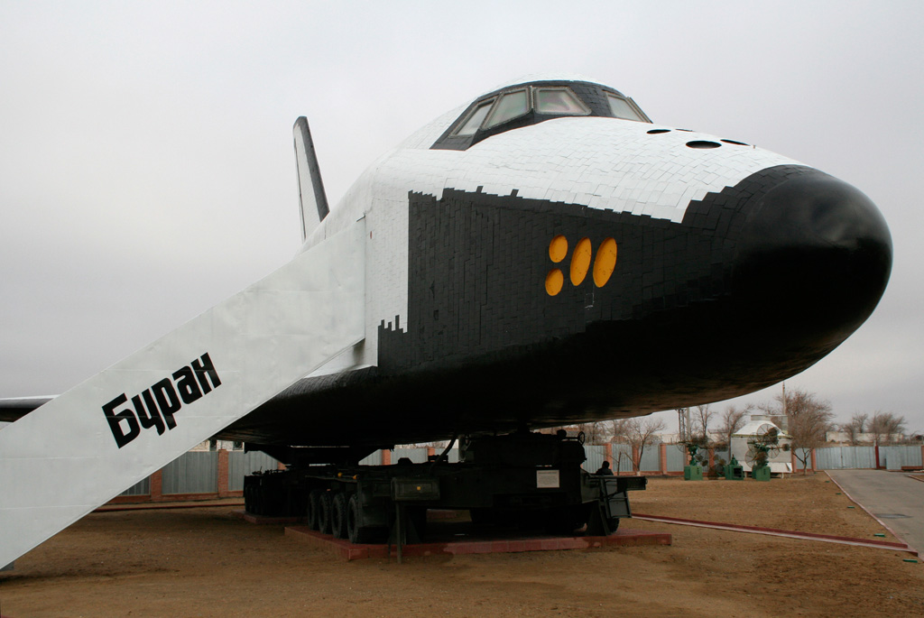 Russian Buran OK-M test article, after refurbishment and display at the Baikonur museum in Kazakhstan.